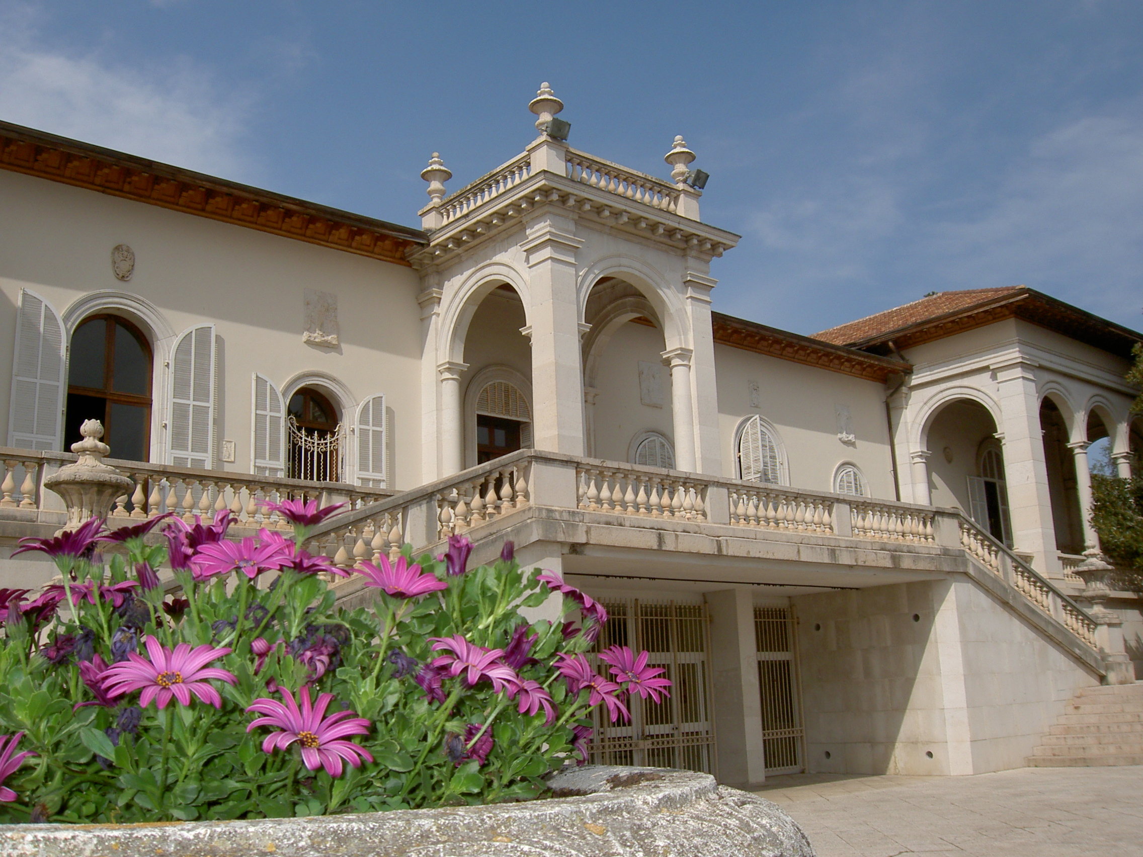 The picture of the villa Ormond, Sanremo, Italy, where the International Institute of Humanitarian Law has its Headquarters